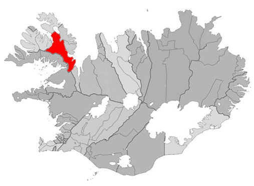 Based on Municipalities of Iceland.png.